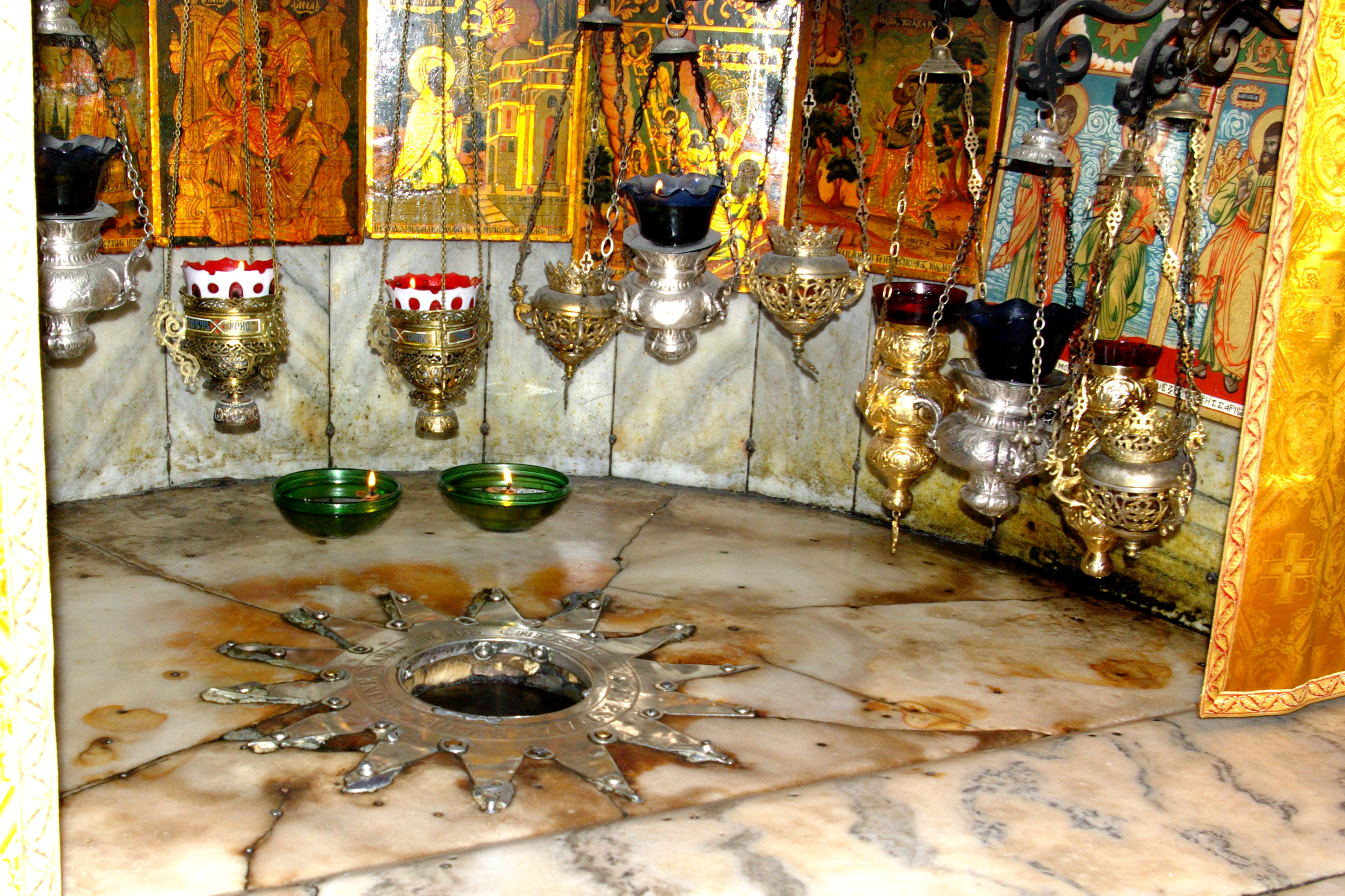 Bethlehem, Church of the nativity, The Star of Bethlehem